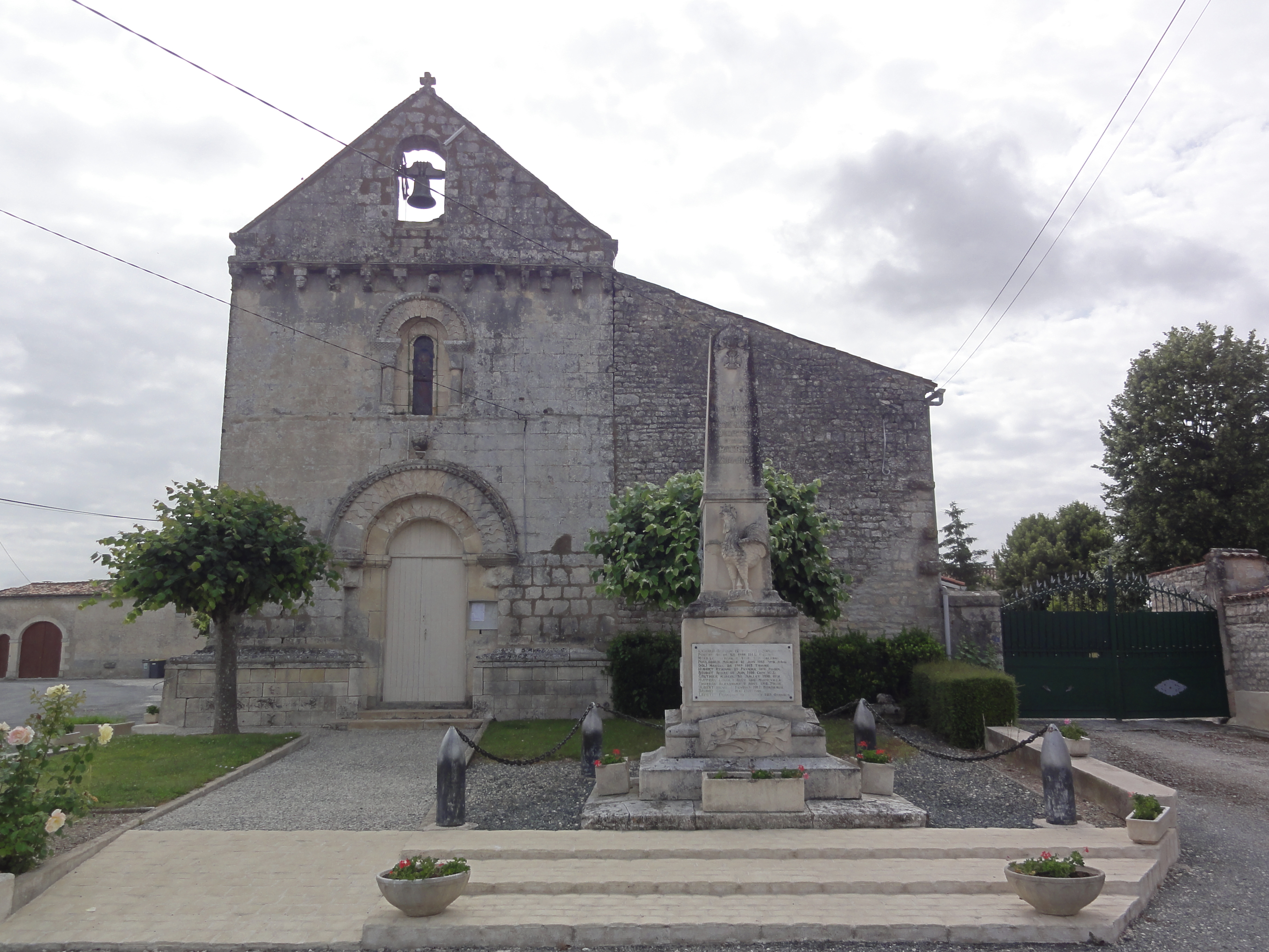 Église Notre-Dame-de-l'Assomption de Poursay-Garnaud, extérieur. .